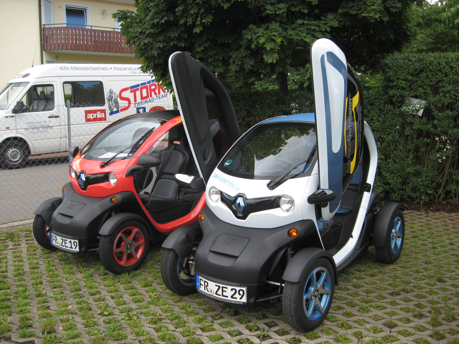 Electric Car, Germany, July 2012